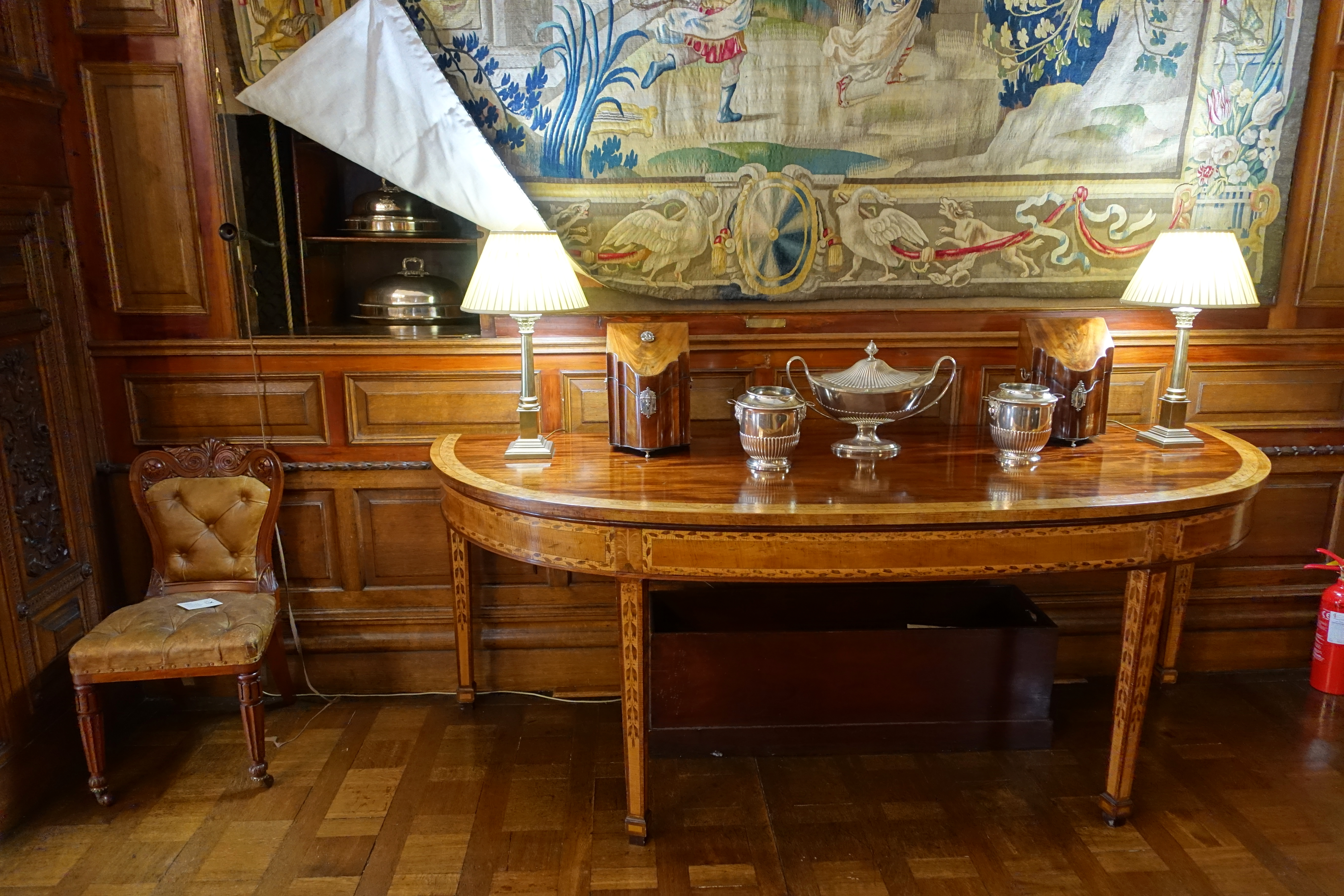 Dining Room - Kingston Lacy - Dorset, England.